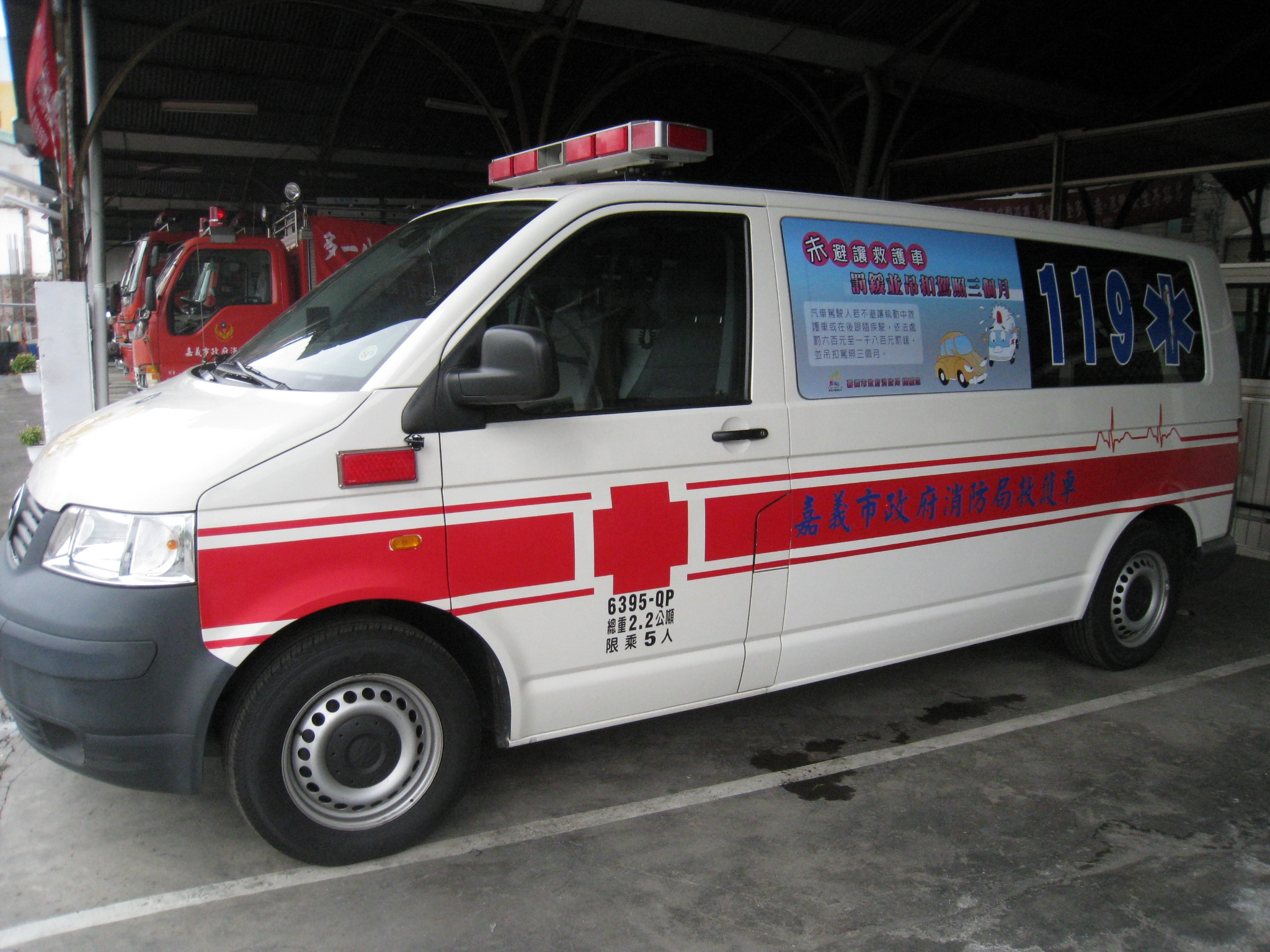 ambulance